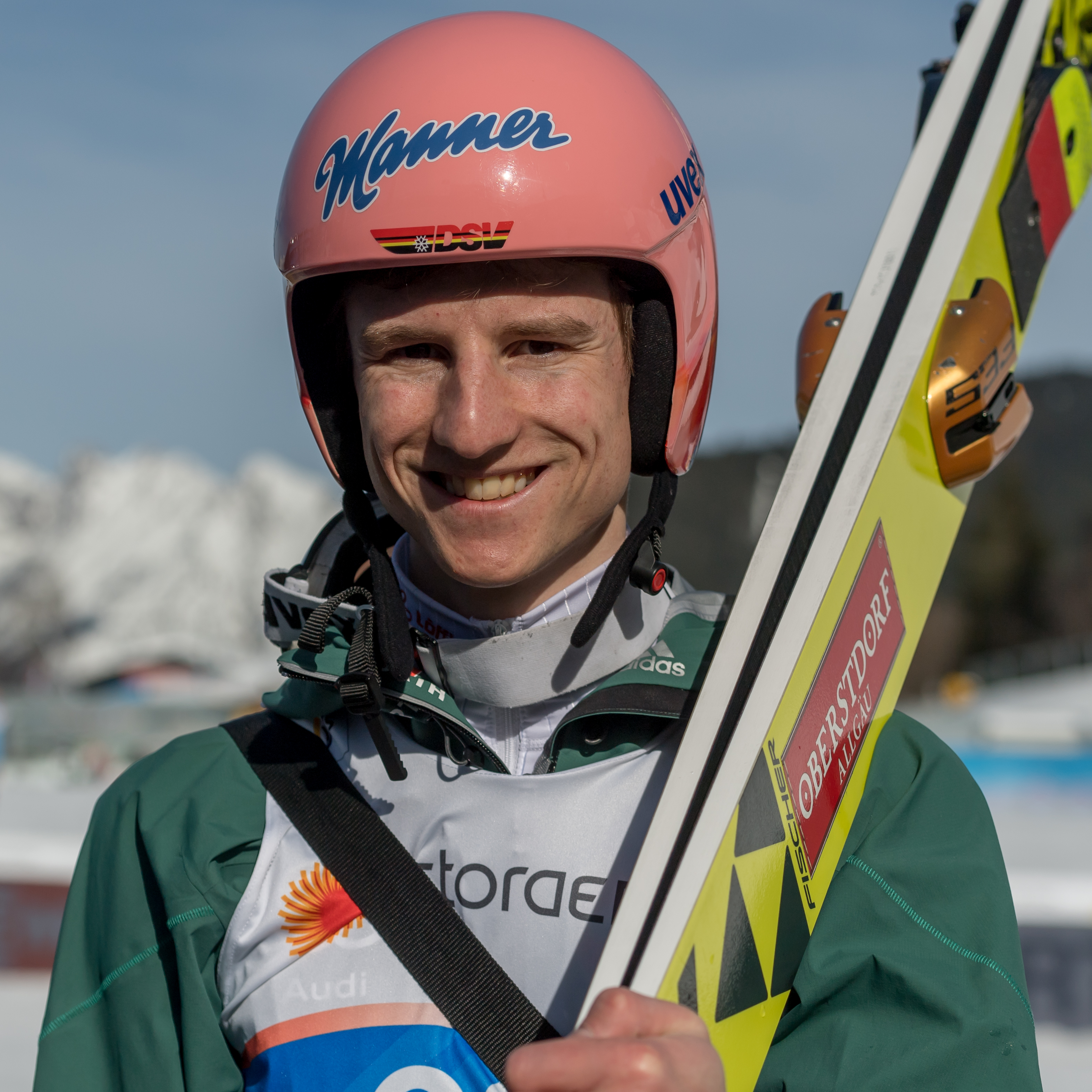 Seefeld, February 26, 2019: FIS Nordic World Ski Championships, Ski Jumping Training Men.